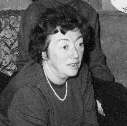 Doris Maase at Haus Freiheit